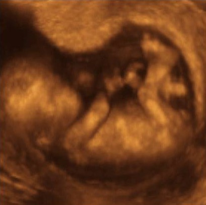 4D echographie. Fetus 12 weeks.